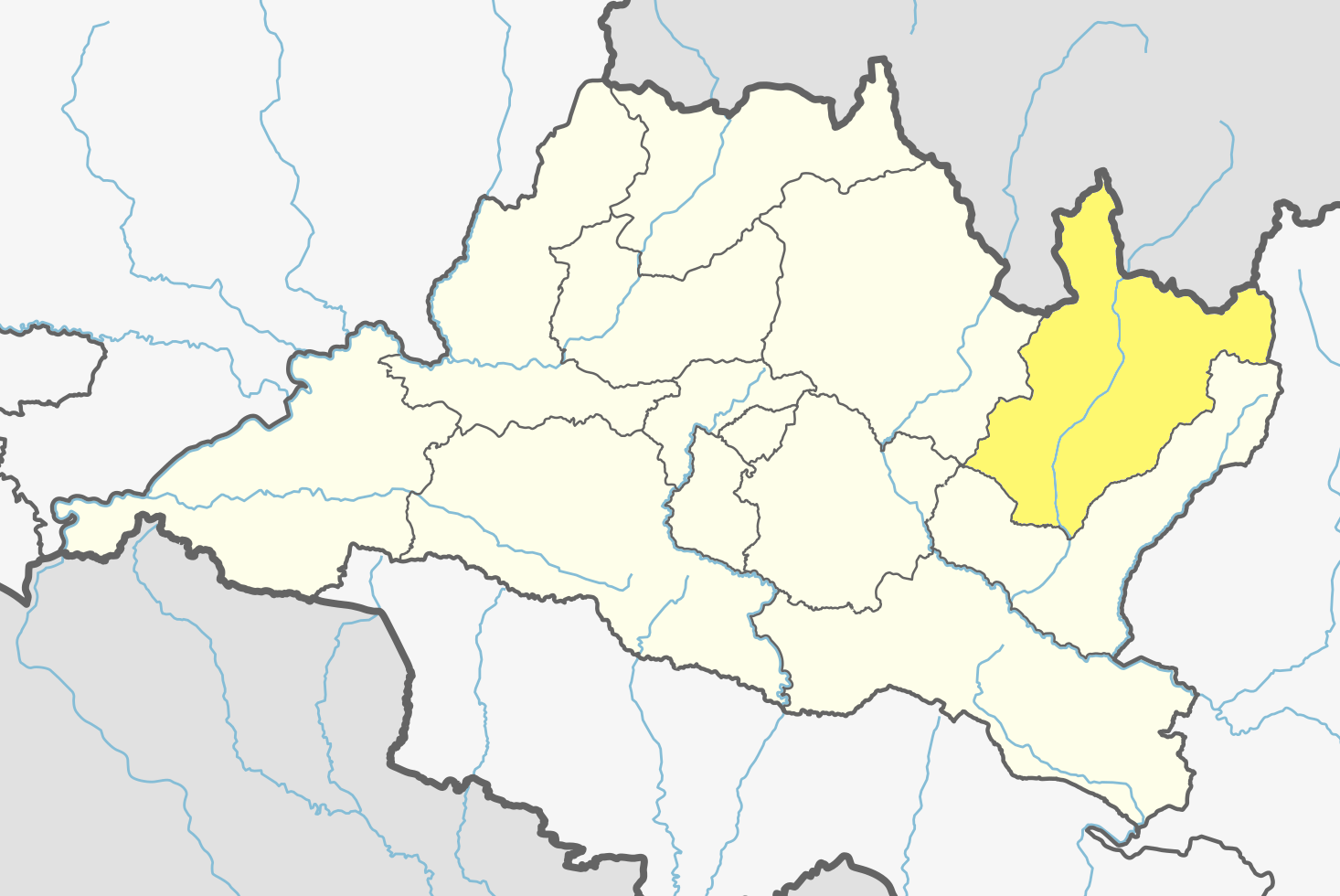 A district of Bagmati Pradesh